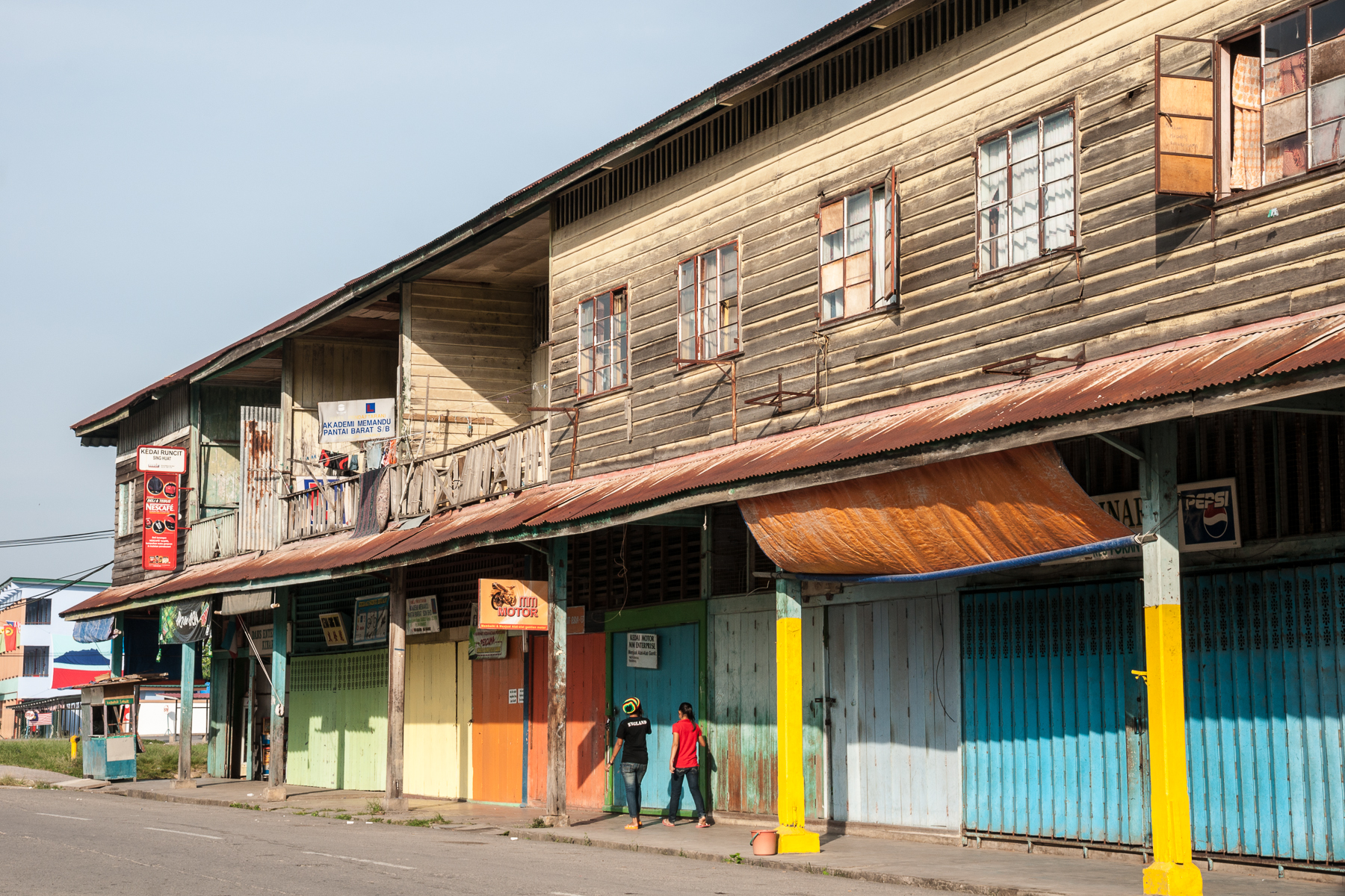 Kinarut, Sabah: Old shoprow near the railway station